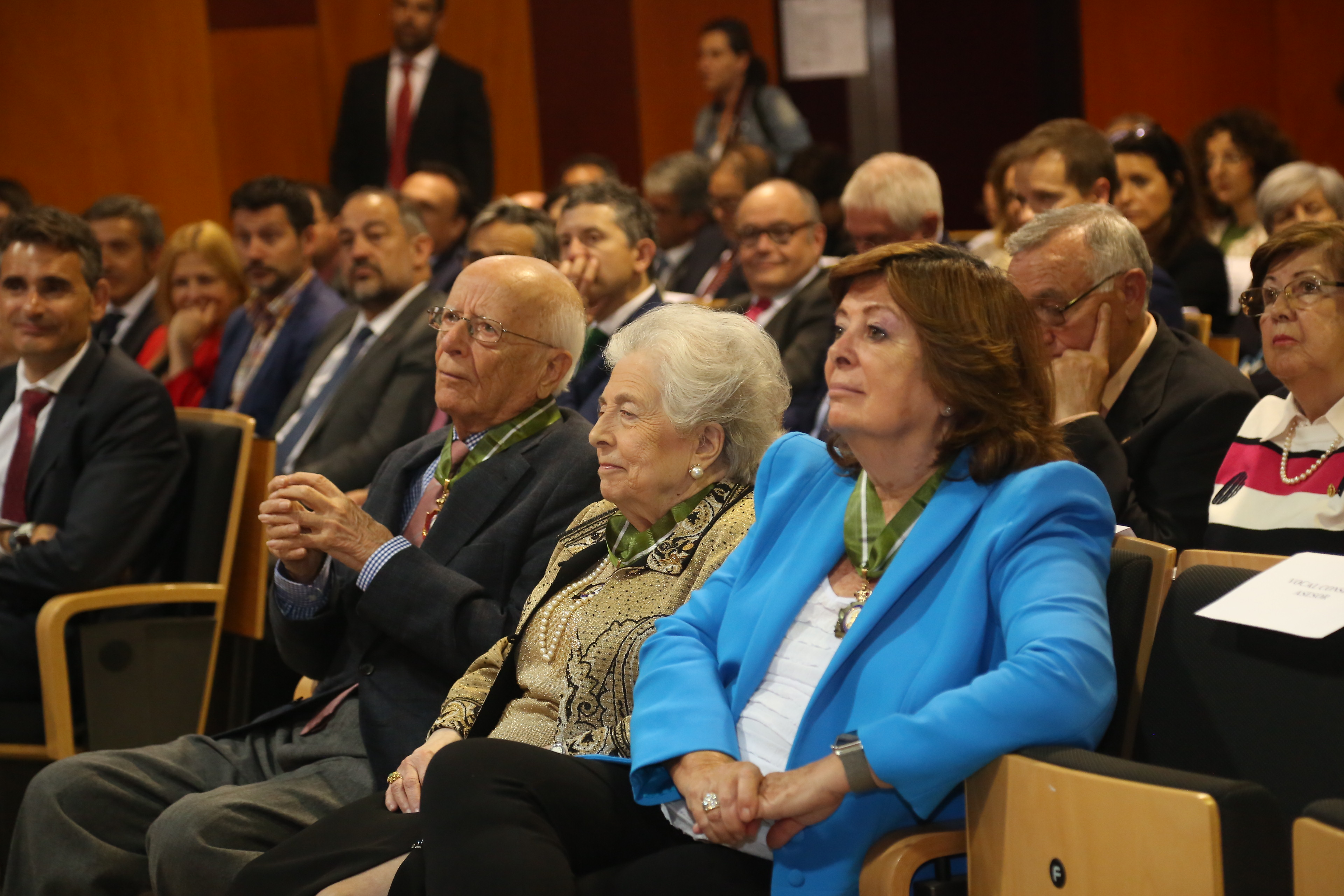 Toledo, 9 de mayo de 2019.- El vicepresidente primero del Gobierno regional, José Luis Martínez Guijarro y el consejero de Educación, cultura y Deportes, Ángel Felpeto, asisten al acto de entrega de las Medallas al Mérito en la Investigación y en la Educación Universitaria en el Aula Magna del Campus Tecnológico Fábrica de Armas, que ha entregado el ministro de Ciencia, Innovación y Universidades, Pedro Duque a Emilio Lledo, María Dolores Cabezuelo y María Vallet. (Foto: Álvaro Ruiz // JCCM)